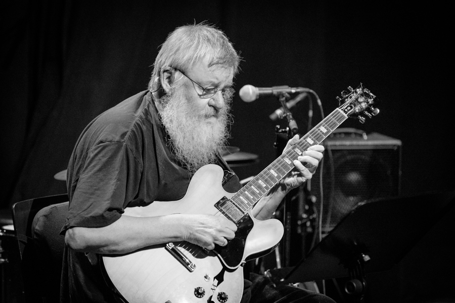 Jon Eberson in a concert with Sigurd Hole at Belleville at Cosmopolite. The concert was part of Kongshaugfestivalen and took place on 16. March 2019 in Oslo. Lineup:Jon Eberson (guitar)Sigurd Hole (double bass)